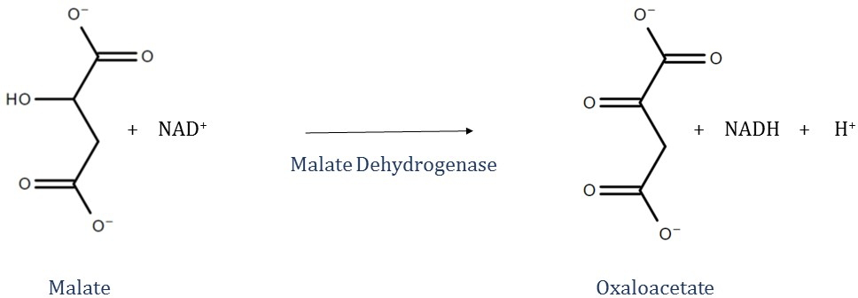 Malate dehydrogenase catalyzed oxidation of malate to oxaloacetate using NAD+